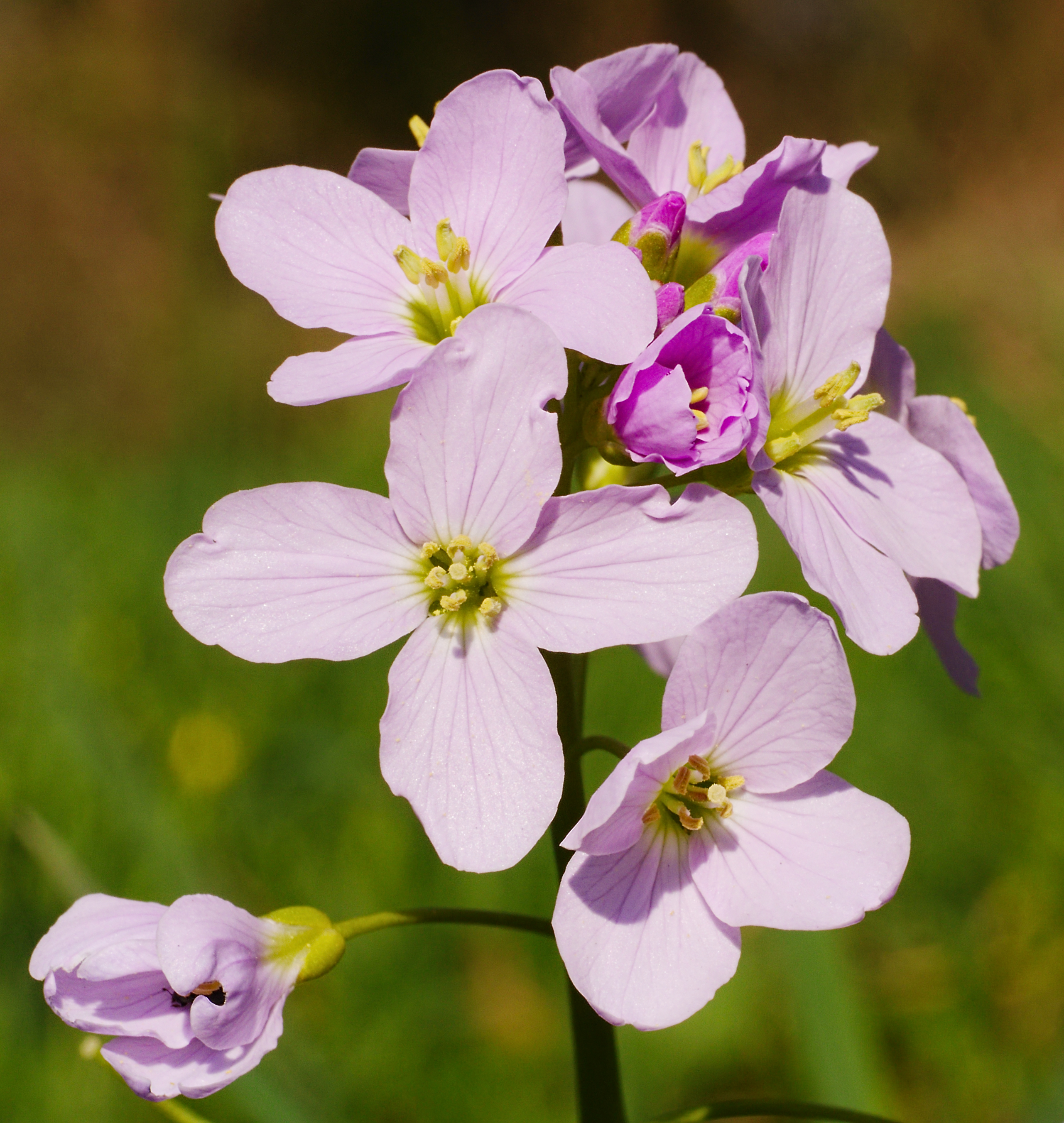 Cuckooflower or Lady's smock - Cardamine pratensis. Taken in Waldpark in Mannheim-Neckarau, Baden-Württemberg, Germany.